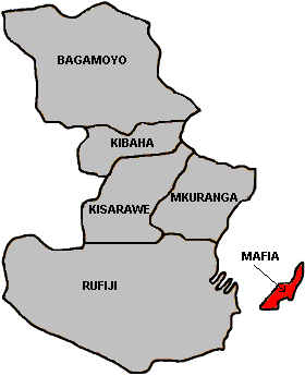 Locator map of the Mafia Island District of the Pwani Region, in Tanzania. Mafia Island is in the Zanzibar Archipelago of the Indian Ocean. Credits Created by Andrew Coe